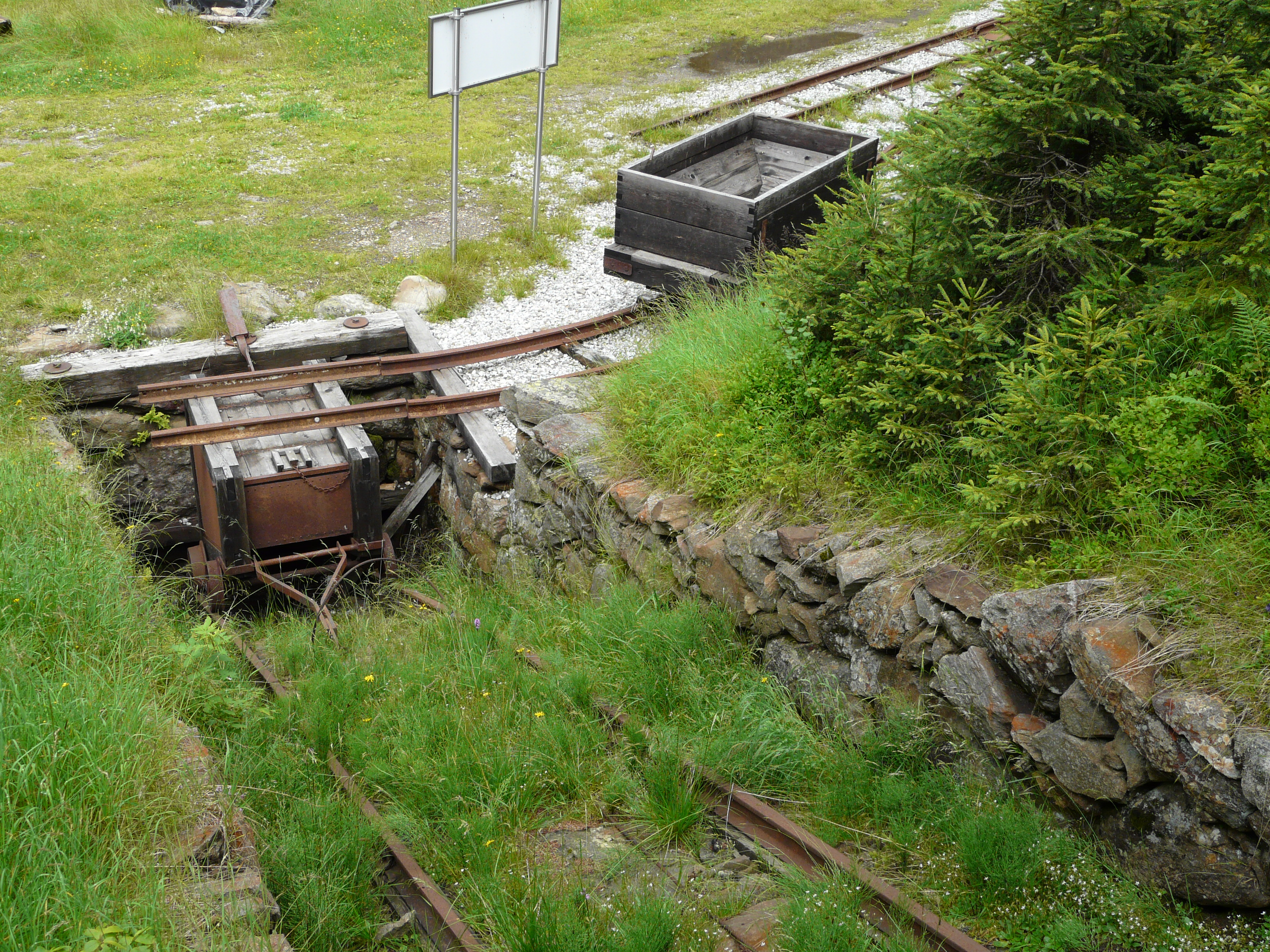 A reconstruction of the mining activities in the Ridnaun valley. The shown equipment is part of the Mining Museum of South Tyrol.